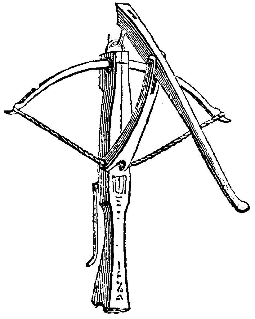 Crossbow